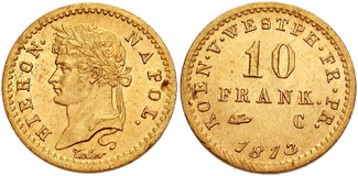 Germany, Westphalia. Jerome Napoleon. 1807-1813. AV 10 Franken (3.23 gm). Cassel mint. Dated 1813C. HIERON NAPOL, laureate head left; "Tiolier" (engraver) below / KOEN • V • WESTPH • FR • PR, 10 / FRANK across field; eagle's head and C below; 1813 in exergue. Schütz 2660; Friedberg 3518; KM 32.1. Lustrous UNC, light hairlines. As Napoleon extended his empire across the continent, he found it provident to establish his male relatives as rulers of the various kingdoms now under his control, as well as marrying-off his sisters to other European monarchs. Joseph was declared King of Spain; brother-in-law Murat, King of Naples; Louis, King of Holland; and Jerome, the King of the new kingdom of Westphalia. Westphalia was cobbled together out of bits of Hesse-Cassel, Hannover, Brunswick, Minden, and Saxony in 1807 after the Treaty of Tilsit between Napoleon and Czar Alexander of Russia cemented French control of the German States. It had a curious monetary system, having two parallel coinages, one on the German thaler standard, the other based on the French franc. This obvious source of confusion reflects the chaotic state of affairs in the area. The supposed constitutional government imposed by the French was never established, Jerome was helpless to stem bureaucratic corruption, and his brother's demands of manpower and resources for his further wars left Westphalia stricken. Nonetheless, when Jerome joined his brother on the Russian campaign he was accompanied by a baggage train of seven wagons, bearing 50 uniforms, 60 pairs of boots, 200 shirts, 300 silk handkerchiefs and copious amounts of champagne. When the Grande Armée retreated from Russia across Germany in 1813 Jerome fled with the French forces, and after a surprisingly brave showing at Waterloo, lived in exile abroad for the next 35 years, returning to France upon the coming to power of his nephew, Napoleon III.